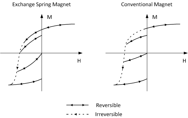 Illustrations of demagnetization curves of exchange spring magnet and conventional magnet.